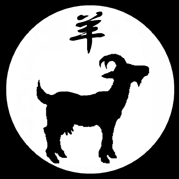 Signe astrologique chinois de la Chèvre